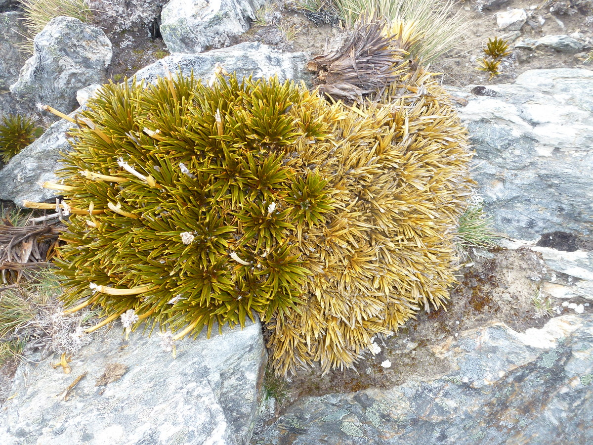 A species of speargrass, growing in the alpine regions of New Zealand